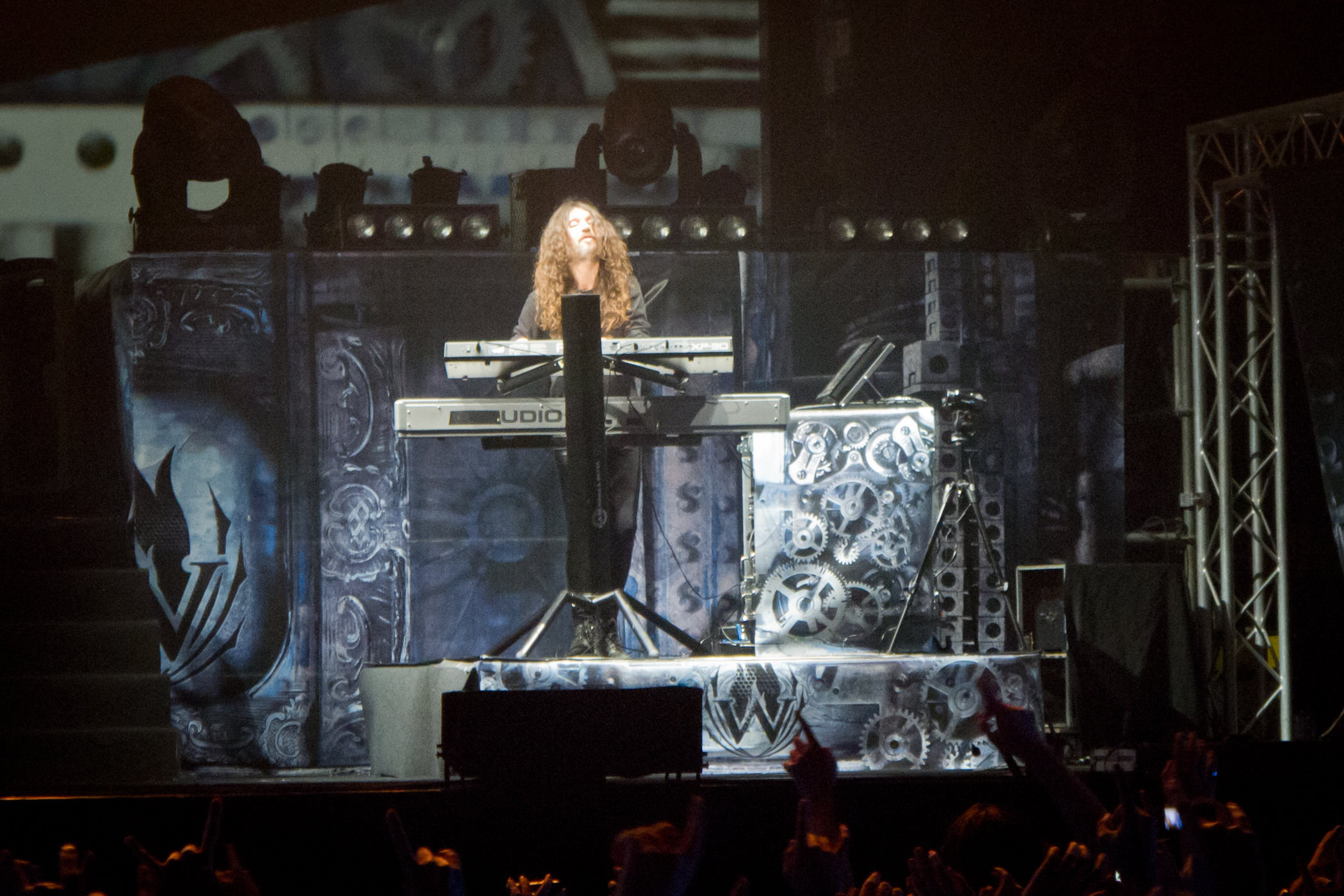 Spanish heavy metal band WarCry in concert in 2012.